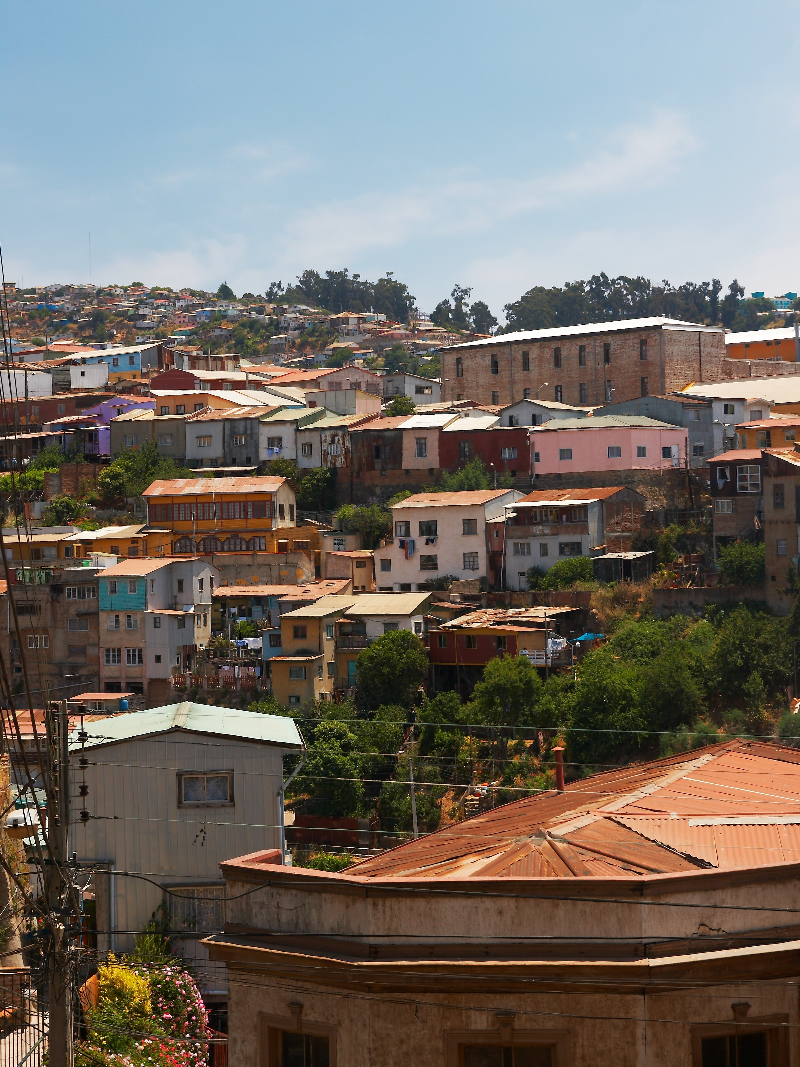 Cordillera Hill, Valparaíso, Chile.